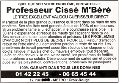 a fake Marabout flyer (mixin the texts and names of many real flyers)